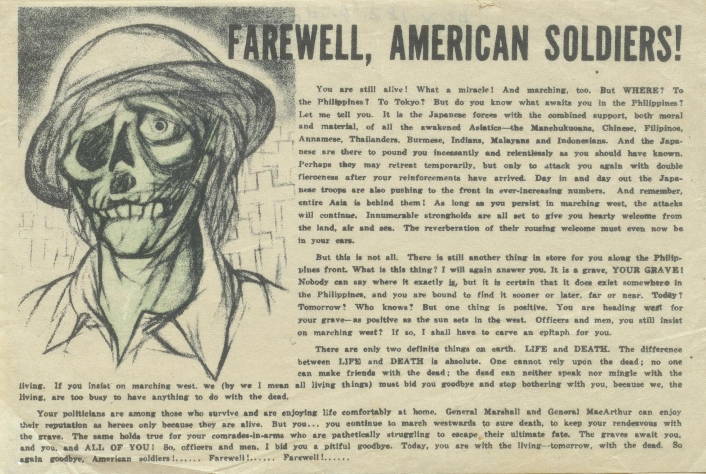 Leaflet with title: "Farewell, American Soldiers!" Original 13x19cm.